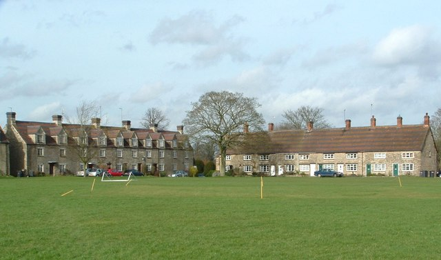 Evenley Red & Blacks The red and black tiles of Evenley houses